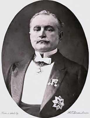 Photo portrait of war artist, Richard Caton Woodville (1856-1927)